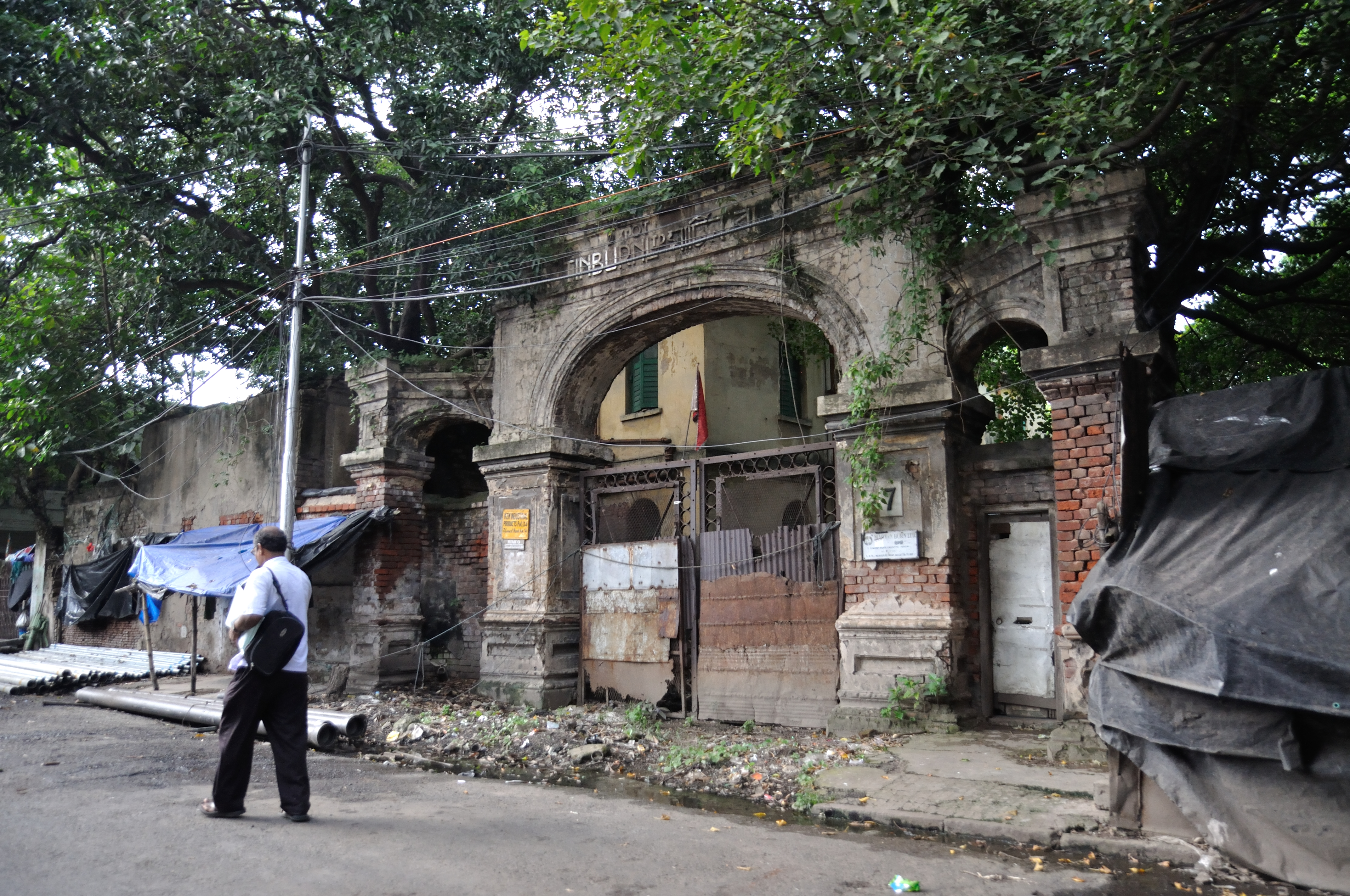 This photograph was taken in Kolkata.